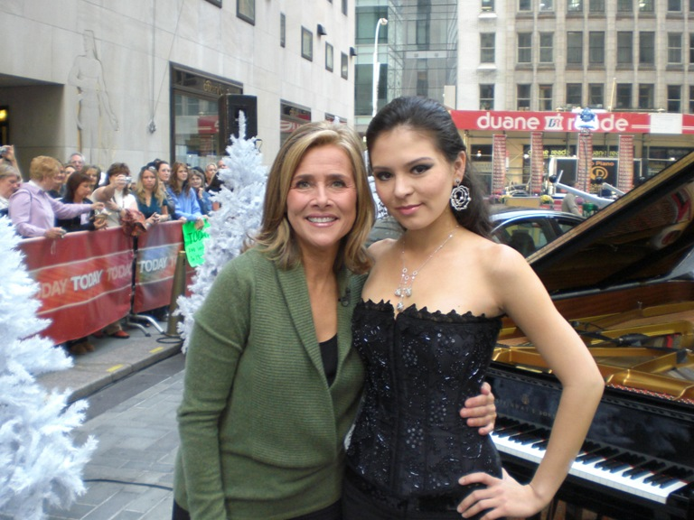 Lola Astanova on NBC's TODAY Show. Behind a Steinway grand piano.